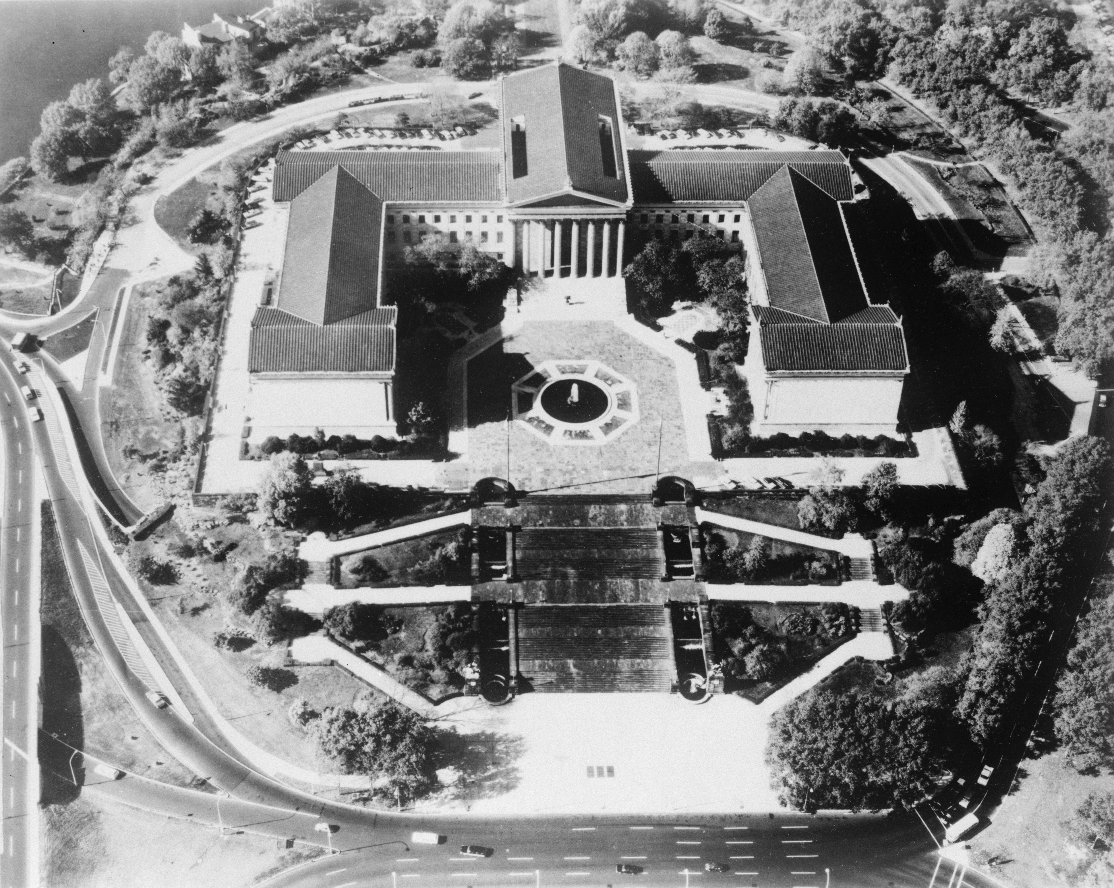 Photocopy of Aerial view of the Philadelphia Museum. Original Photo In Possession of The Philadelphia Museum of Art. - Philadelphia Museum of Art, Benjamin Franklin Parkway, Philadelphia, Philadelphia County, Pennsylvania. (